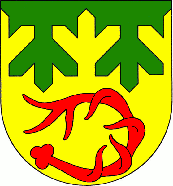 Municipali coat of arms of Jindřichovice pod Smrkem village, Liberec District, Czech Republic.